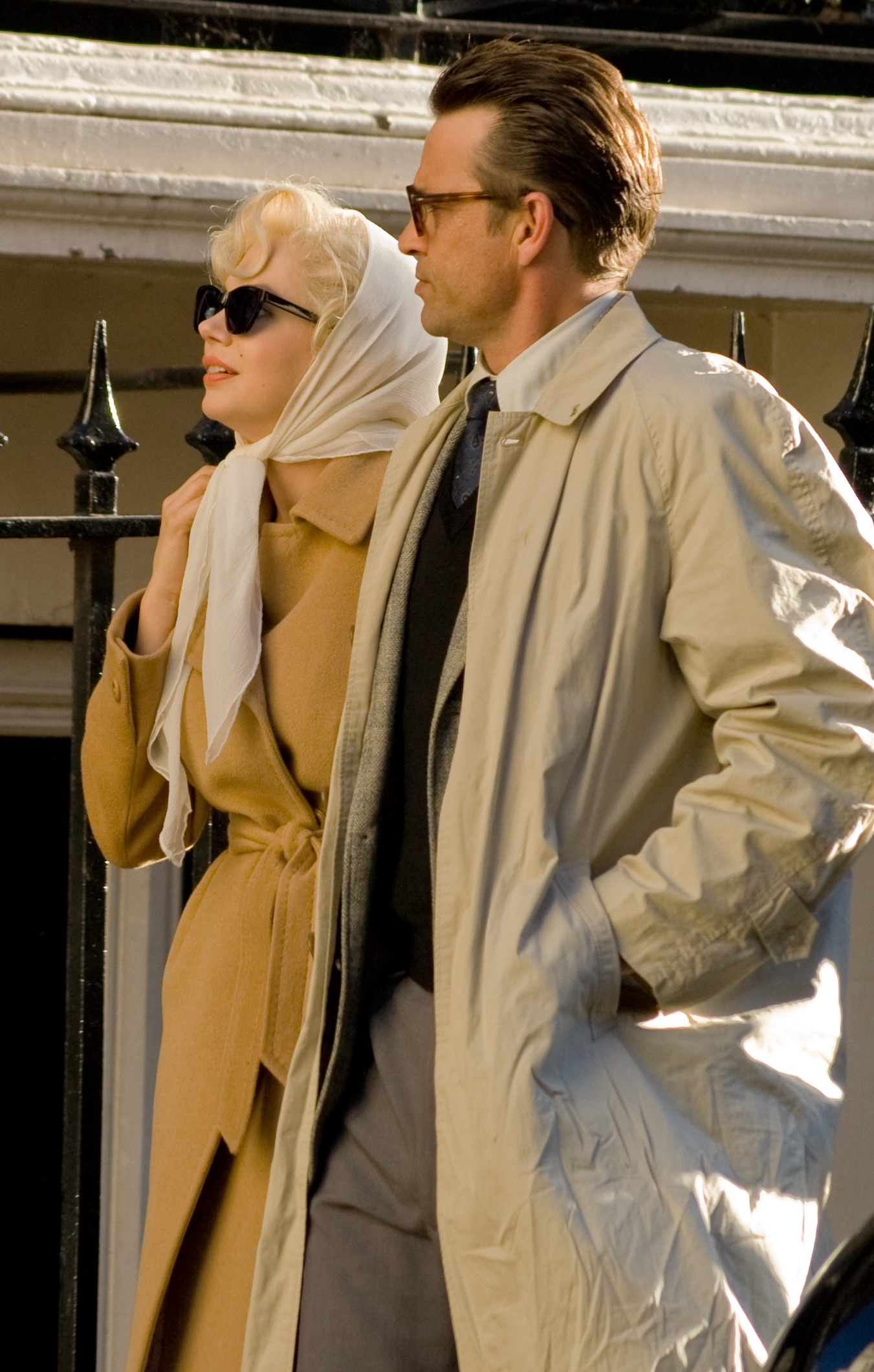 Michelle Williams and Dougray Scott as Marilyn Monroe and Arthur Miller respectively. Taken by David McKears on the film set of My Week with Marilyn, which was being filmed in London in October 2010.